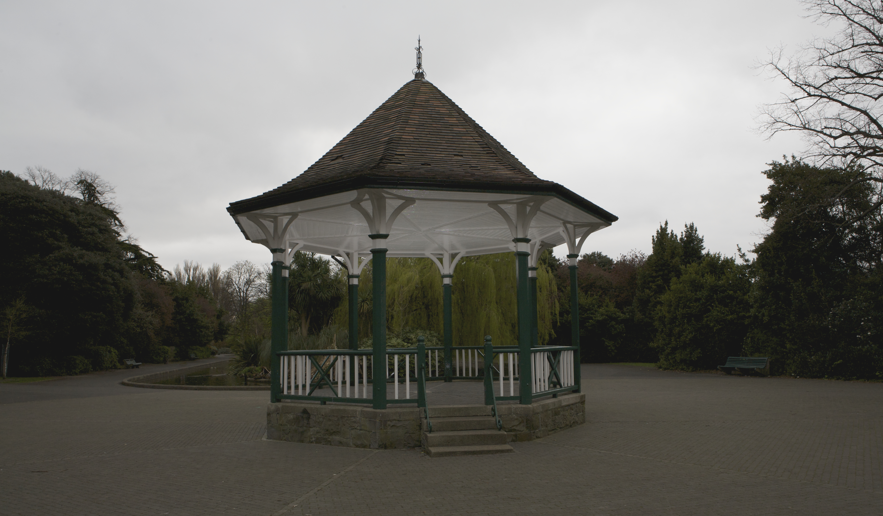 The bandstand and pond in Herbert Park, Ballsbridge, Dublin.